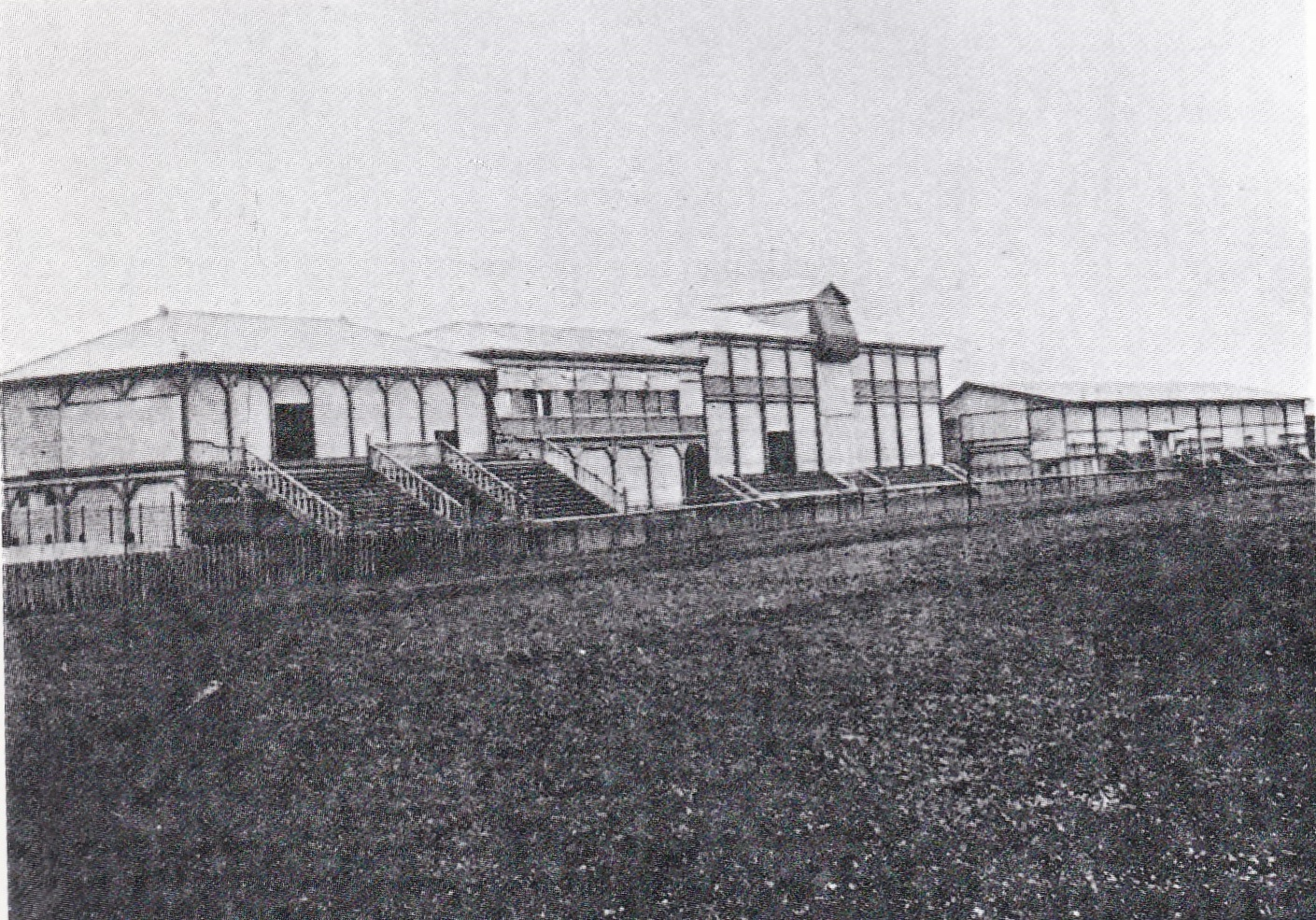 Grand Stand of Yokohama Racecource (Japan) 1907